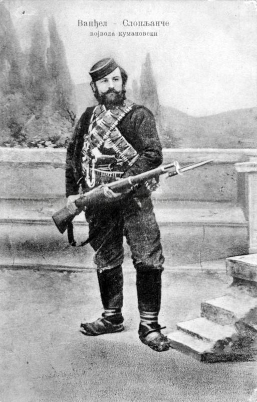 Portrait of Serbian Chetnik Vojvoda of Kumanovo, Vanđel Skopljanče.